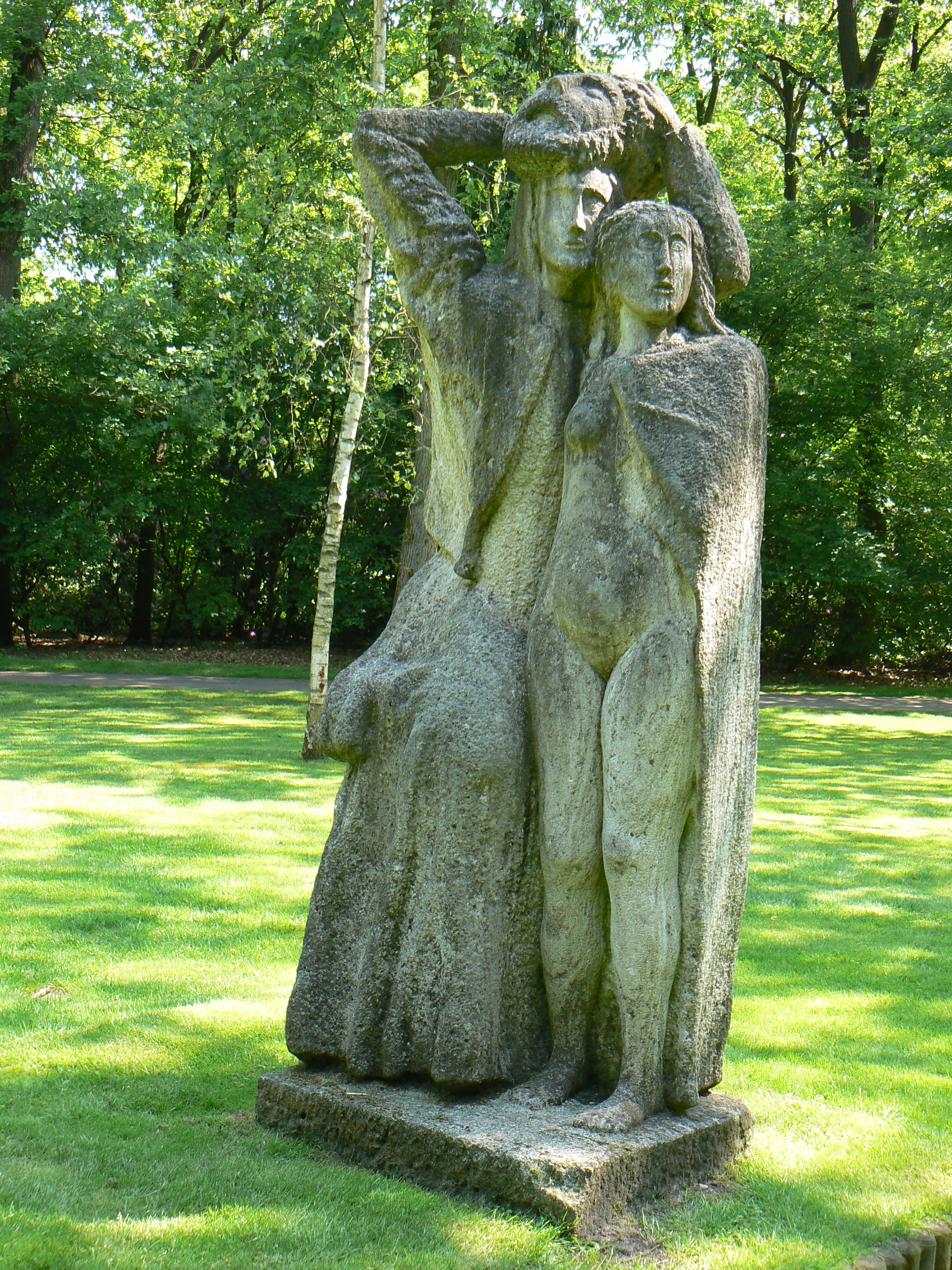 sculpture Giuditta e Oloferne (1932/3) by Arturo Martini in KMM Scul;pturepark/The Netherlands